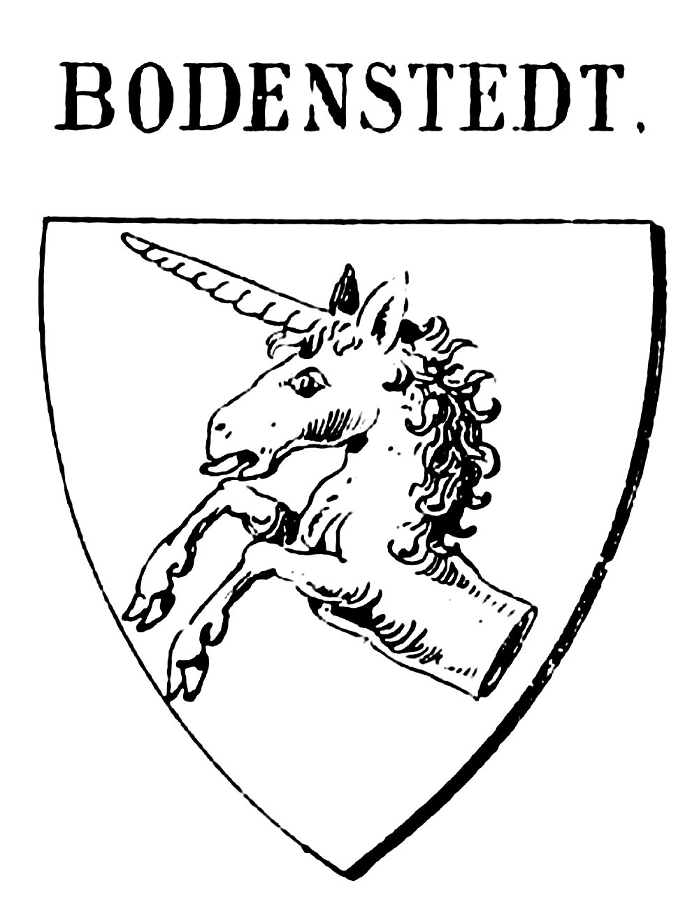 Coat of arms of the Knights of Bodenstedt (Bodenstede, Böddenstedt)